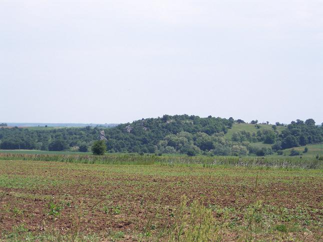 Locality Kamiko, near village Vinishte, Bulgaria